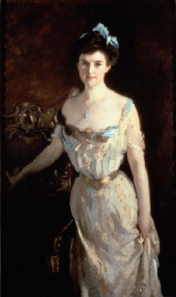 Mrs. Charles Pelham Curtis 1903 Portland Museum of Art, Portland, Maine Oil on canvas 152.2 x 76.2 cm (60 x 30 in.) Inscription: (Upper left:) John S. Sargent (Upper right:) 1903 signed Accession Number: 1982.275